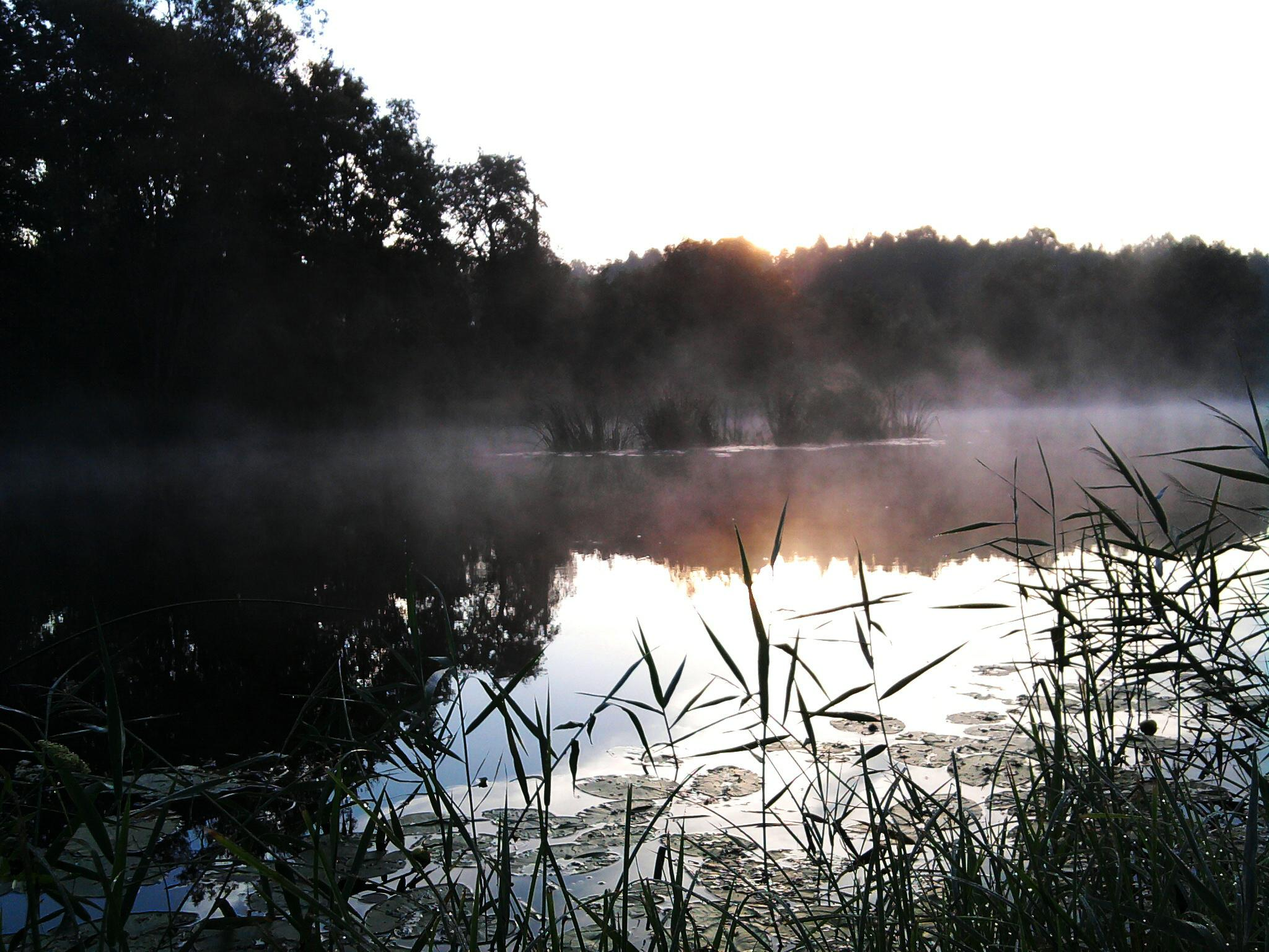 The day begins. Navesti river